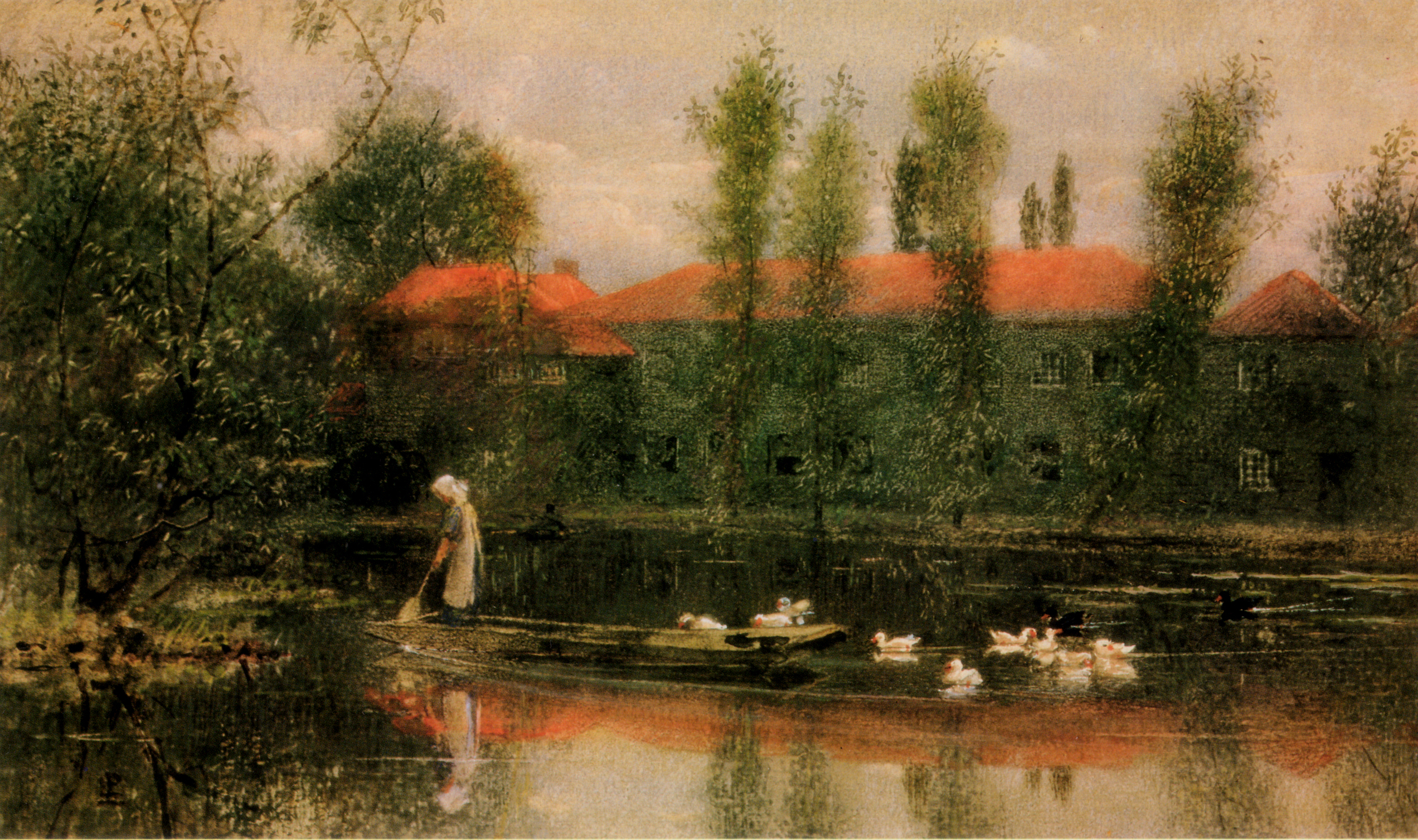 The Pond at Merton Abbey or The Pond at William Morris's Works at Merton by L. L. Pocock, watercolour, 13.9 x23.1 cm, now in the Victoria & Albert Museum (P.34-1924). William Morris acquired the old silk works at Merton Abbey Mills in June 1881 and relocated the workshops of Morris & Co. to Merton.